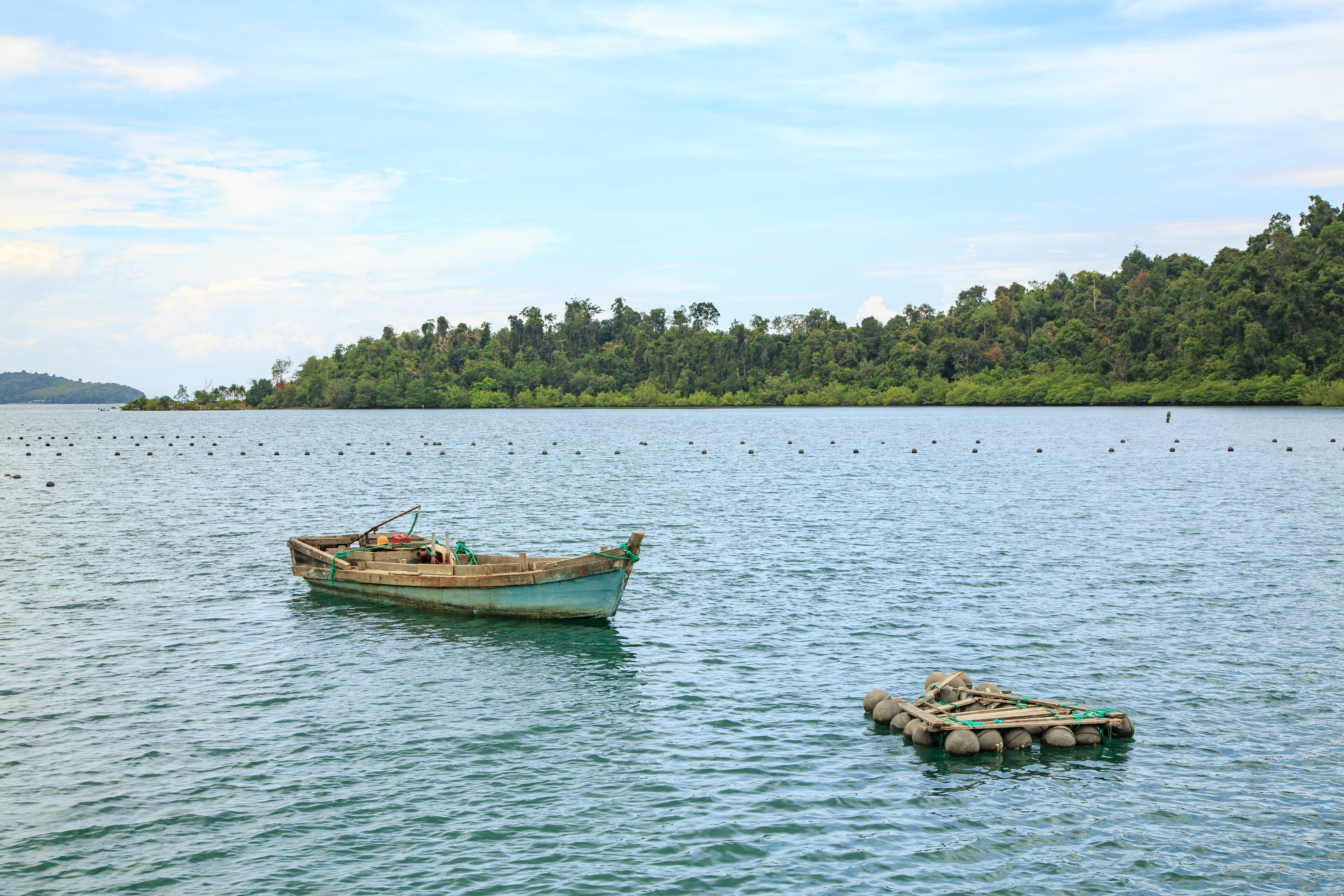 Silam, Sabah: View from the old timber jetty into the Kennedy Bay